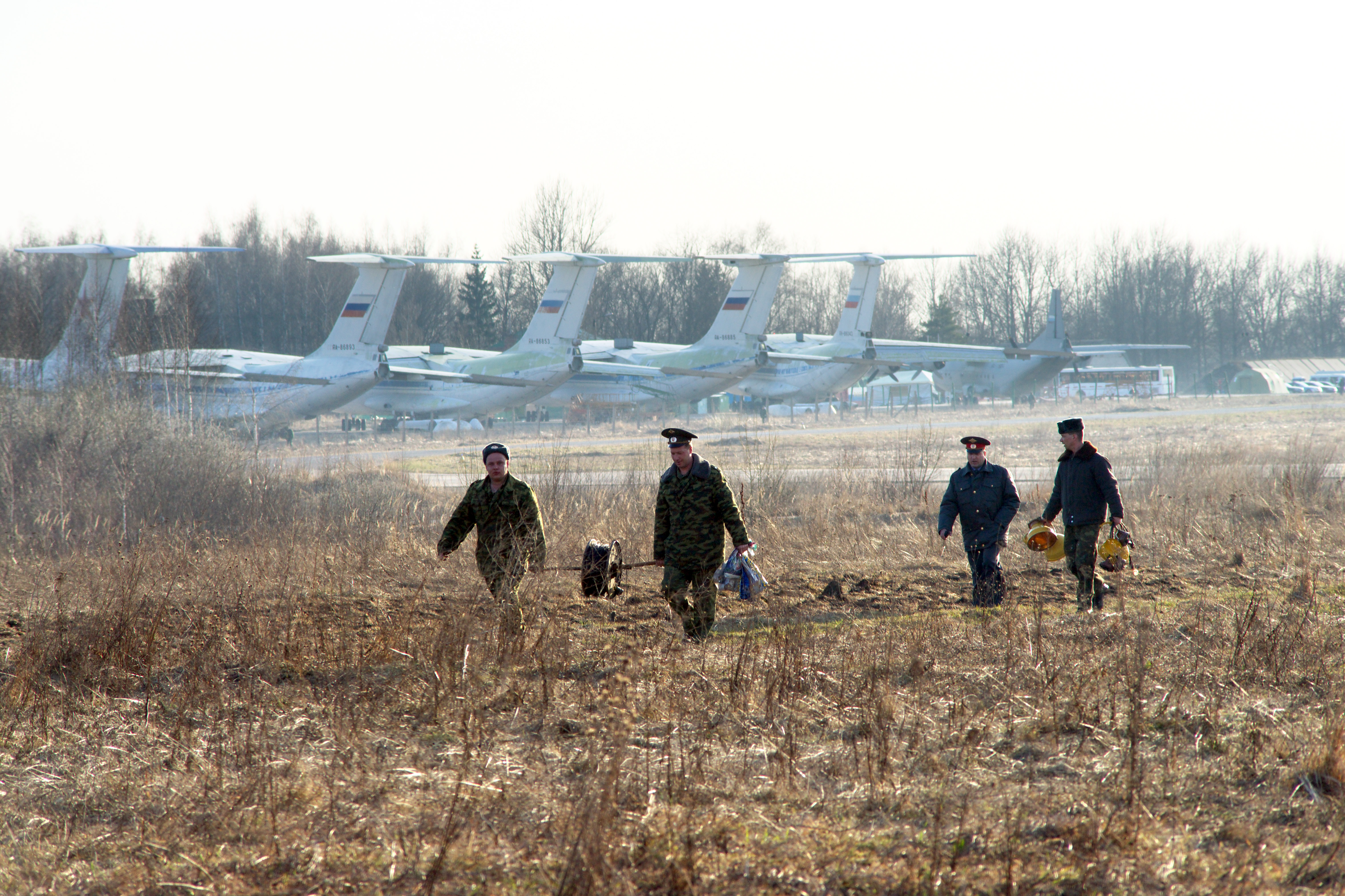 Russian military, accompanied by a policeman pulled the cable to signal lights before landing strip airfield Smolensk-North. Several hours after the crash of Tu-154 Kaczynski